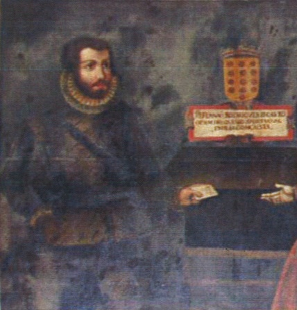 Fernão Rodrigues de Castro, and Emília Gonçalves, in a 17th-century painting in the Palace of the Counts of Ficalho, in Serpa, Portugal.